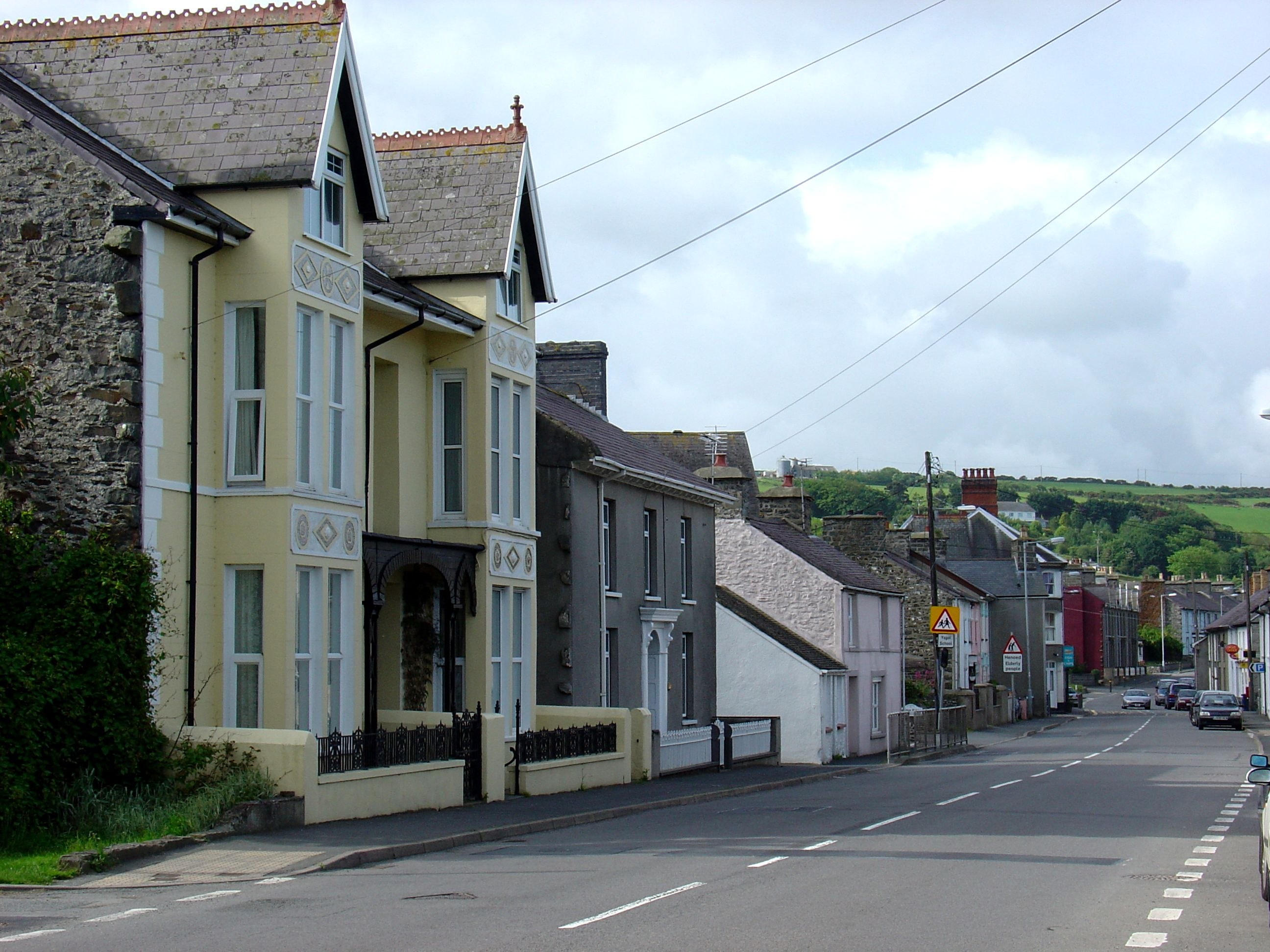 Main street of Llanon (Stryd Fawr)--the A487 road between Aberaeron and Aberystwyth, mid Wales, UK.